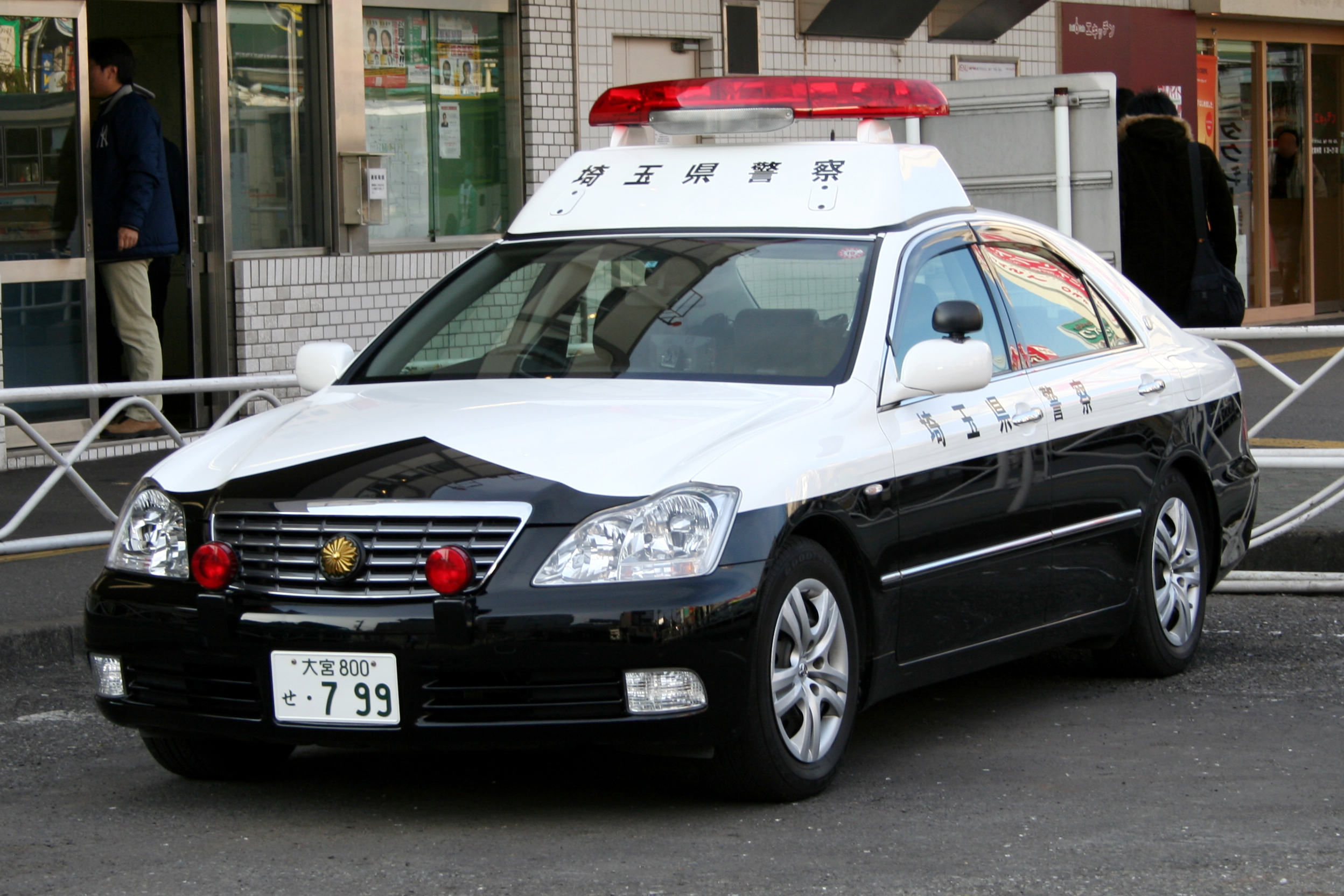 Japanese TOYOTA CROWN GRS180 police car in Saitama prefecture.